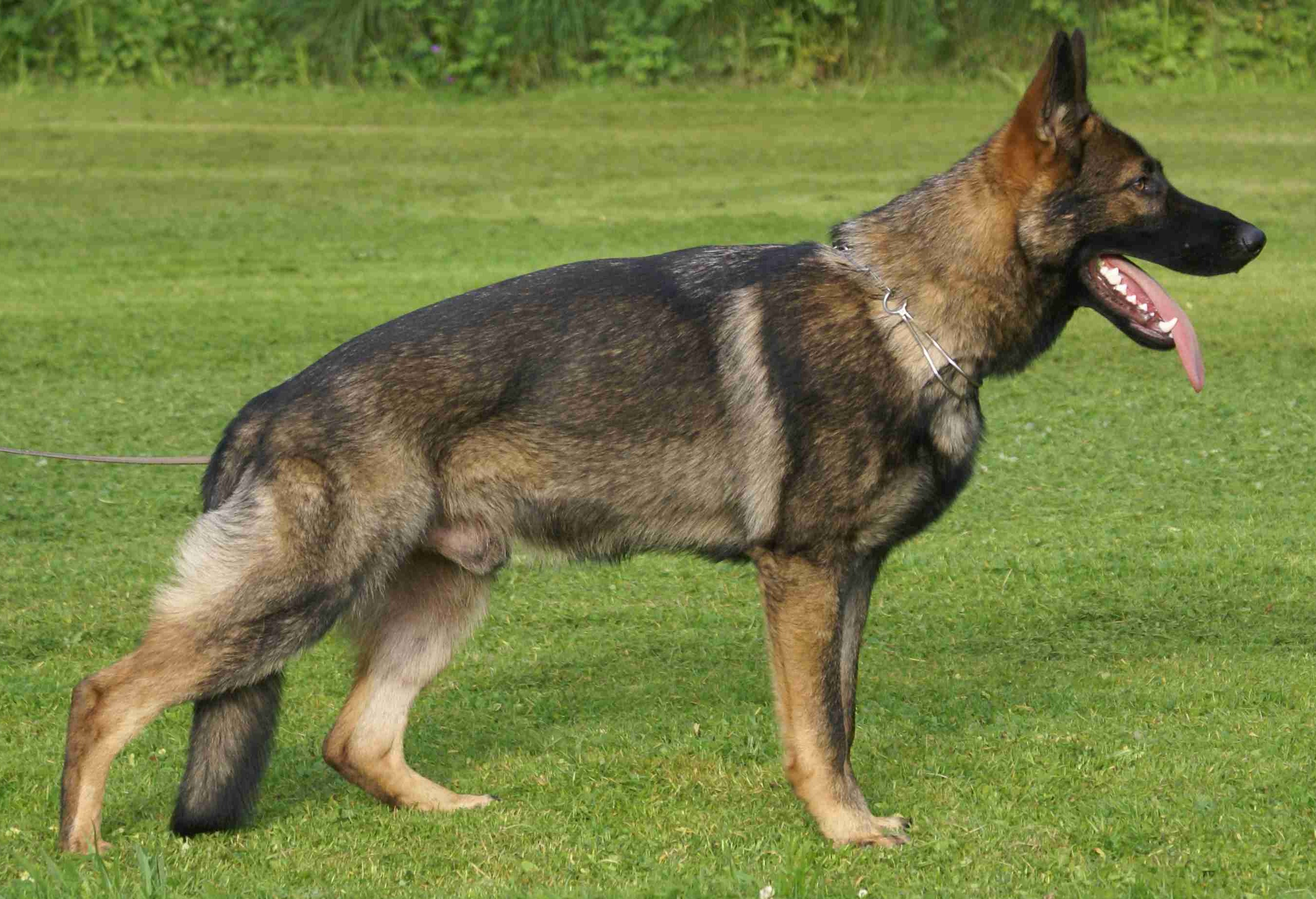 Sable German Shepherd Dog named "Karlo vom Gernkogel". Working line.